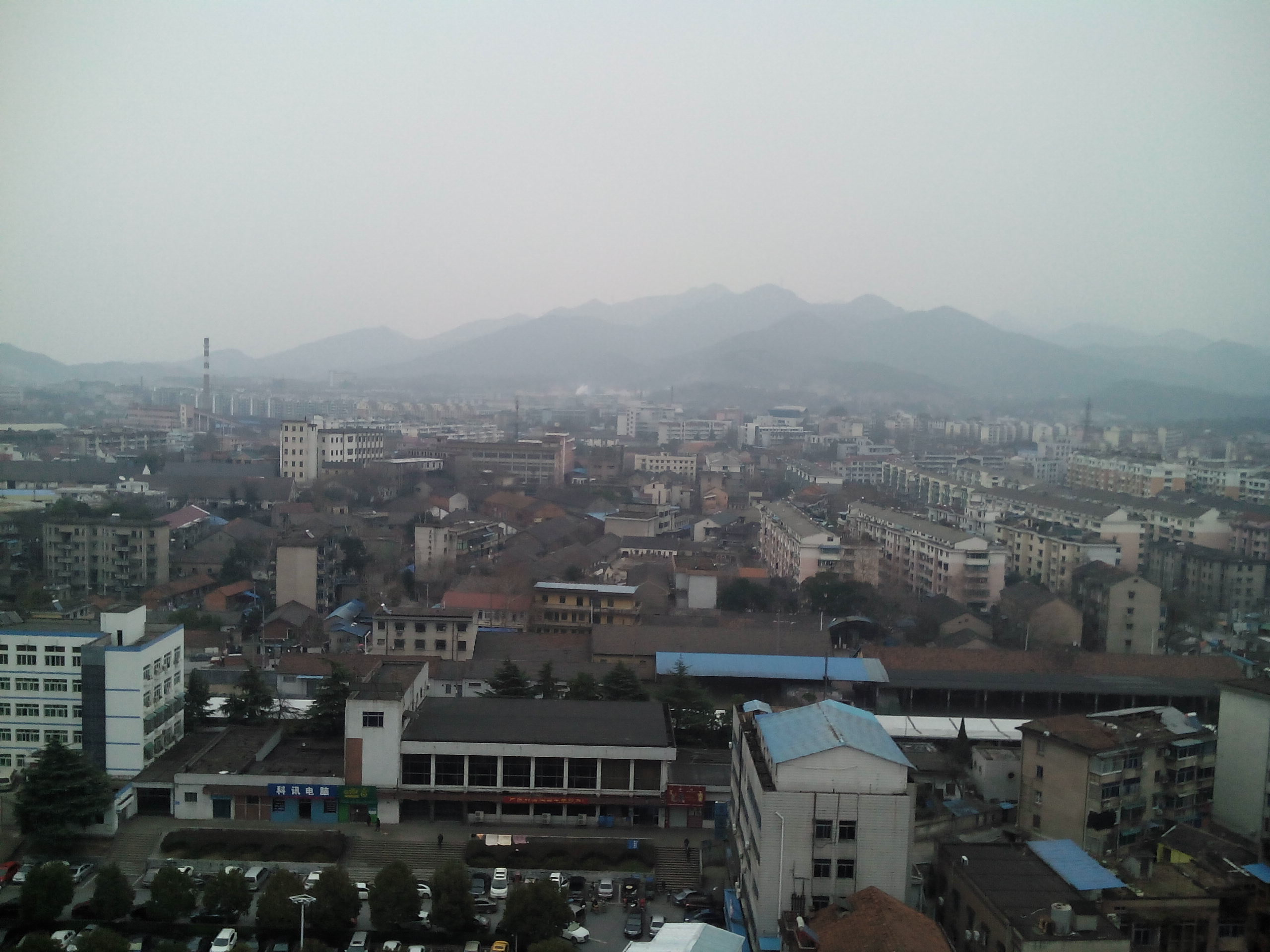 201501 Lanxi Station and Lanxi City